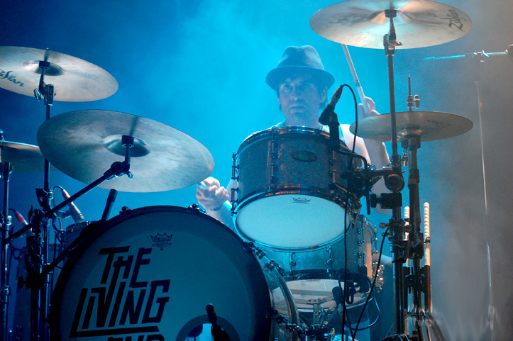 The Living End @ Metro City (12/9/2008)